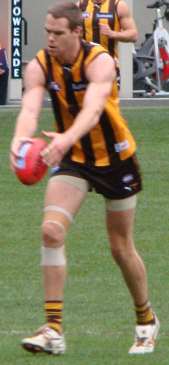 Max Bailey's first goal in AFL vs Port 2011